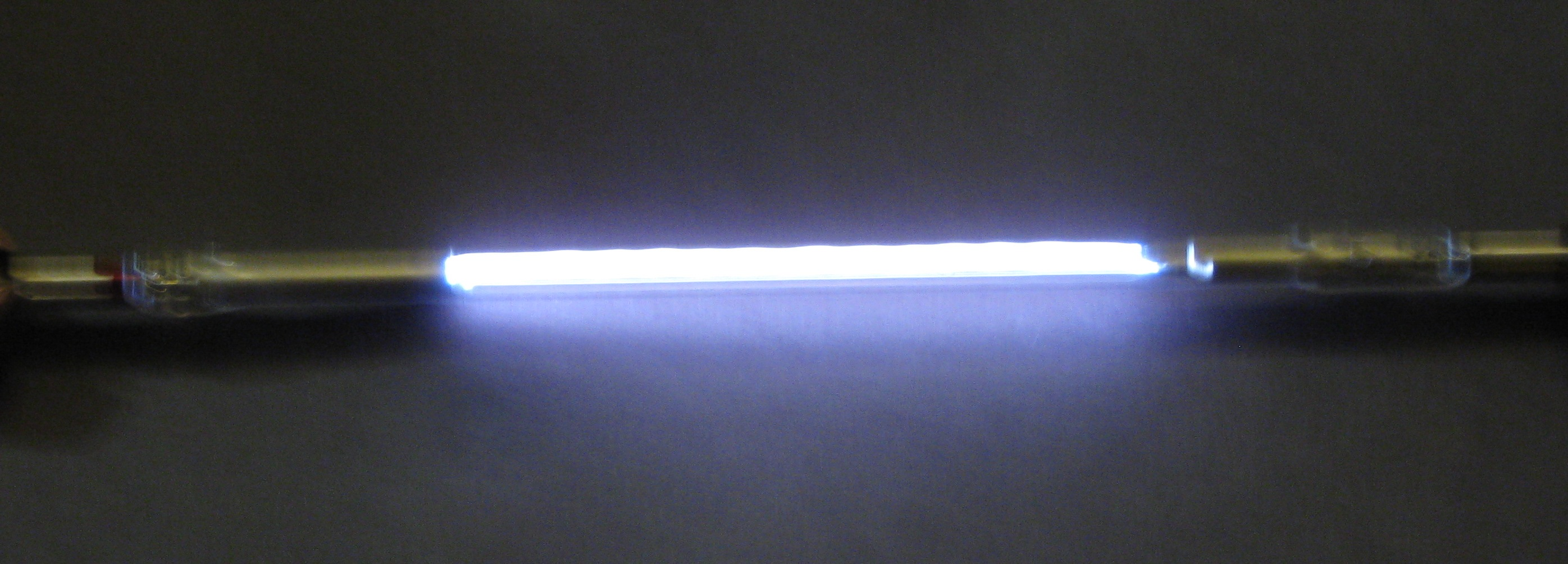 This photo shows the spectral line radiation from a krypton arc lamp. While the light looked almost white to the human eye, the camera images the very strong infrared line at 820 nanometers as purple.